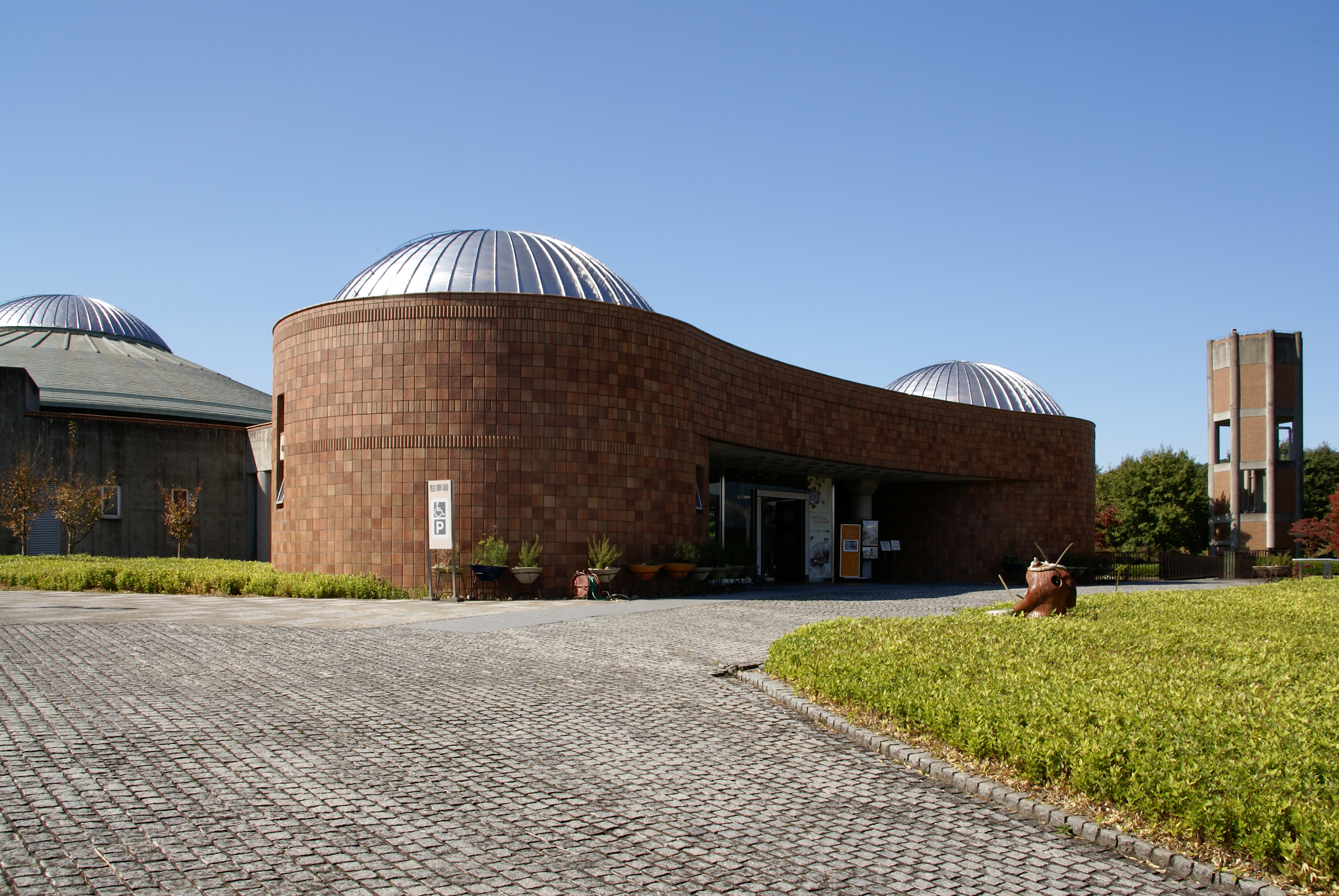 Shigaraki Ceramic Cultural Park in Koka, Shiga prefecture, Japan